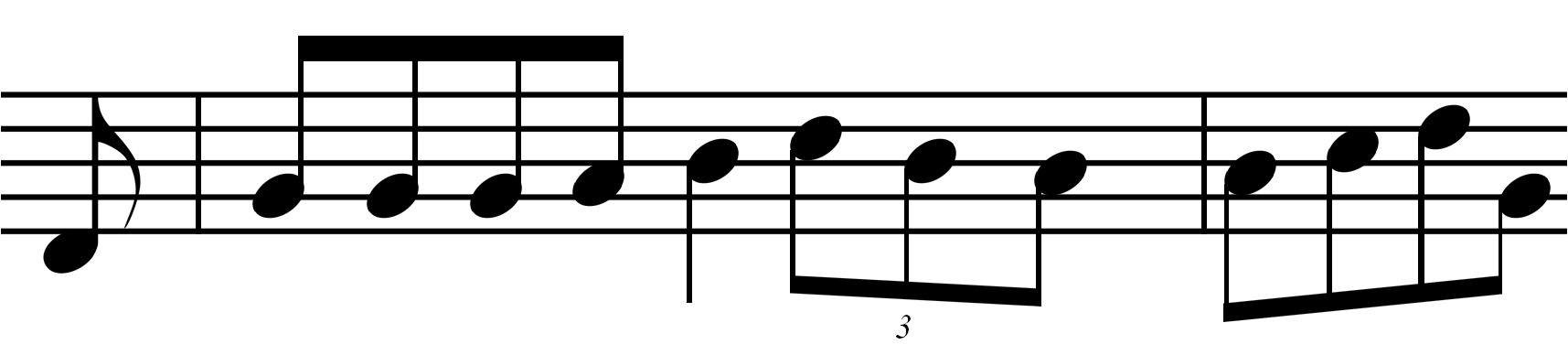 An melody